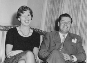 Photograph of the Finnish diplomat Joel Toivola (1915–1999) and his wife Eli.